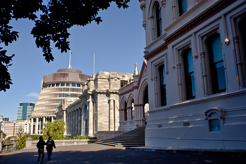 Government building "Beehive" (left), Parliament House (centre) and The Parliamentary Library (right). Wellington, New Zealand